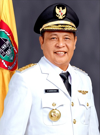 Sahbirin Noor as South Kalimantan Governor